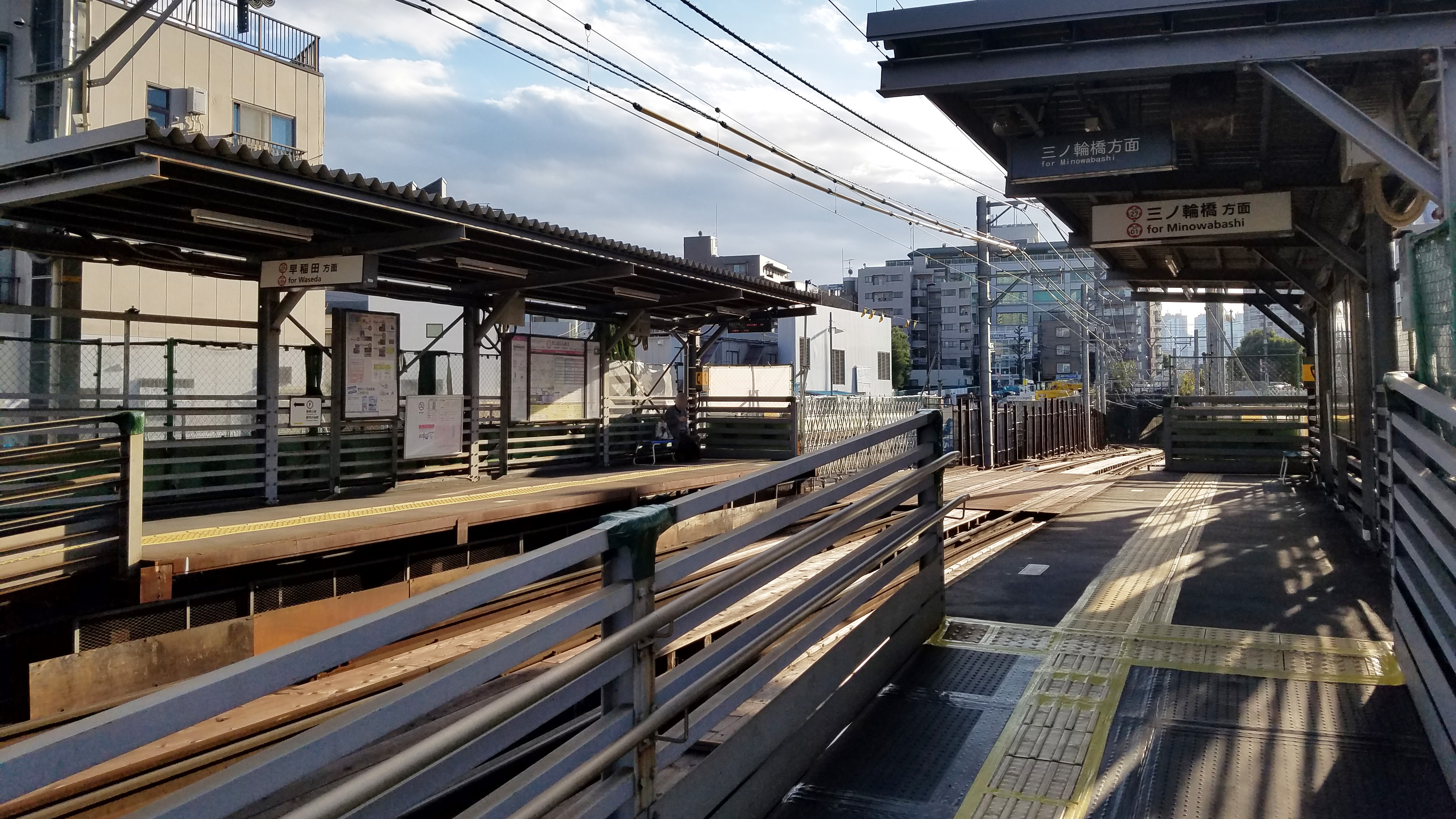 The platforms at Kishibojinmae Station on the Toden Arakawa Line(Tokyo Sakura Tram) in Toshima city, Tokyo, Japan